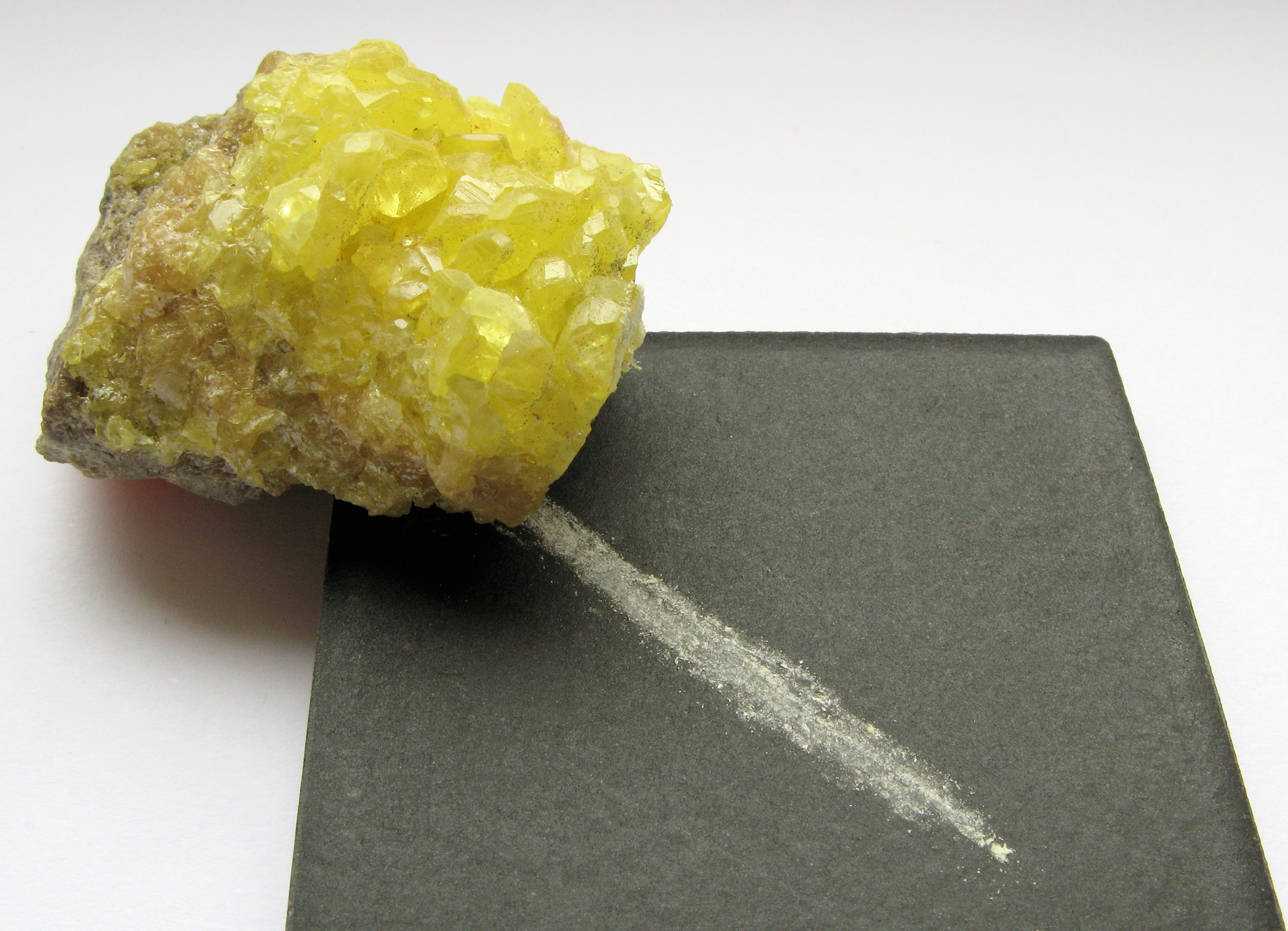 Streak color of Sulfur